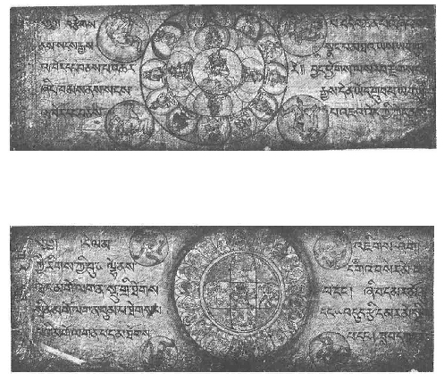 Folios 35 and 67 of a manuscript of the Bardo Thodol (Liberation through Hearing during the Intermediate State), often known in the West as the Tibetan Book of the Dead. The manuscript is housed in Bodleian Libraries, shelfmark MS. Tibet.c.60 (R). Donated by W.Y.Evans-Wentz in 1965.